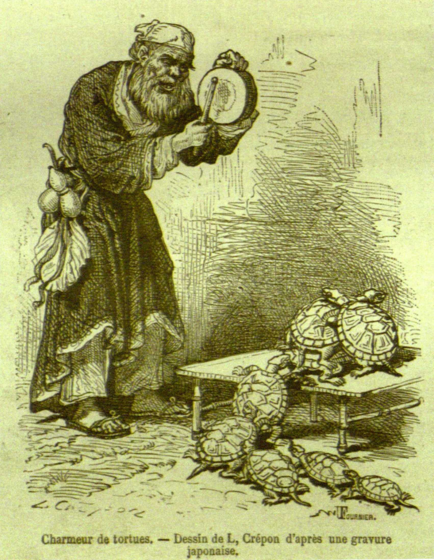 "Charmeur de tortues" by L. Crépon after a japanese engraving, in Tour du Monde, 1869. This is a possible inspiration for Osman Hamdi Bey's Tortoise Trainer. (Possibly, what we need is a valid reference to assert that.)